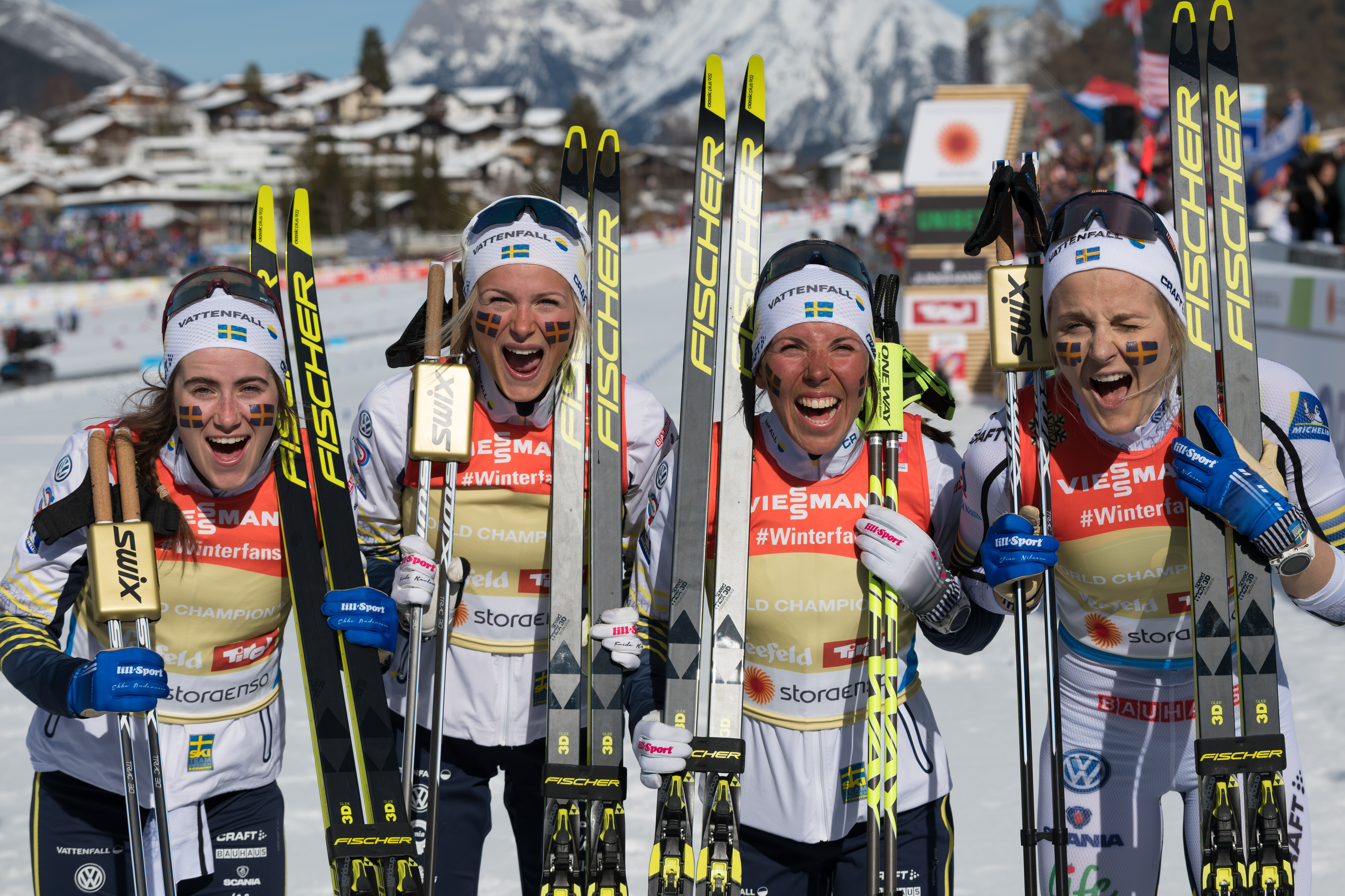 FIS Nordic Wolrd Ski Championships Seefeld 2019 - Ladies 4x5km Relay Classic/Free. Picture shows Ebba Andersson (SWE), Frida Karlsson (SWE), Charlotte Kalla (SWE), Stina Nilsson (SWE)